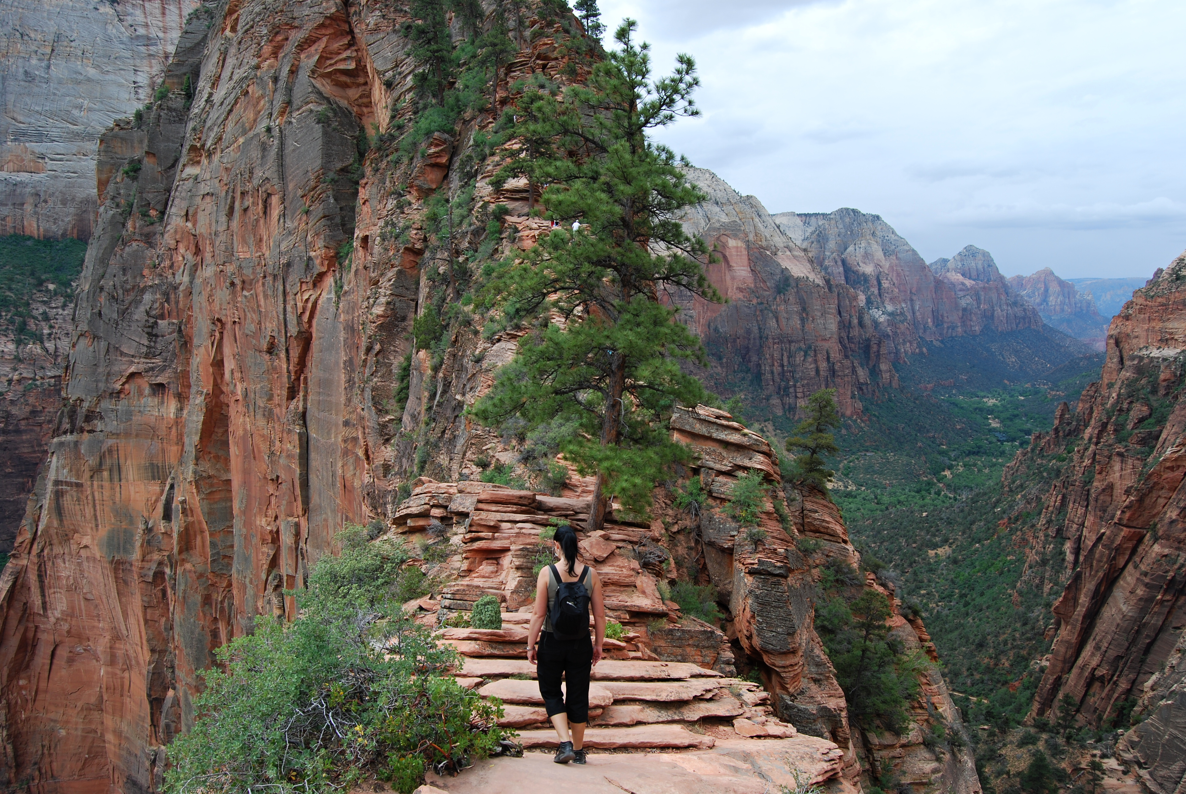 Zion - trail to Angels Landing